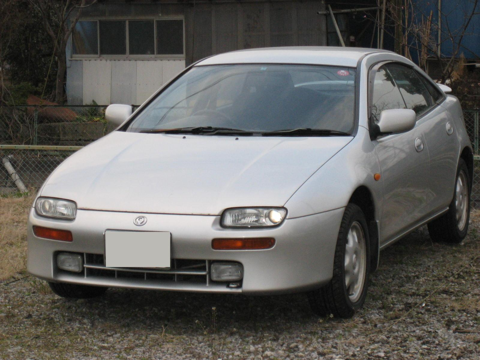 I photoed MAZDA LANTIS.